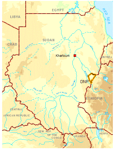 Map of Dinder National Park (DNP) location in eastern Sudan.